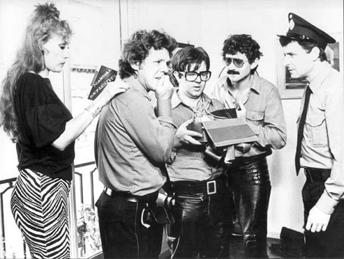 Brigada explosiva- película argentina